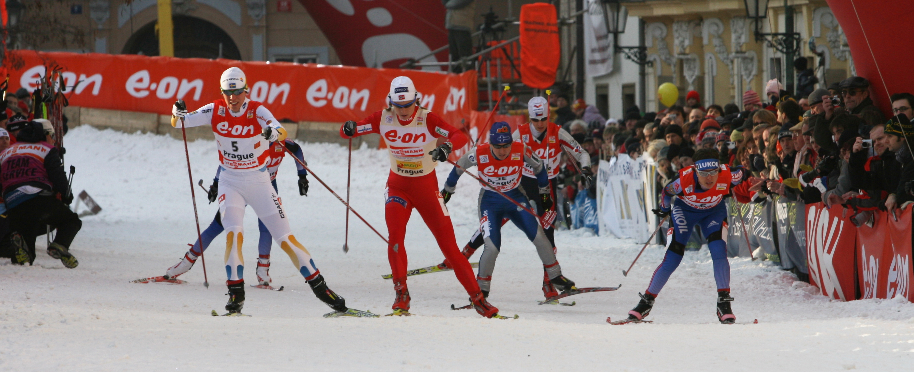 Charlotte Kalla (number 5, in the lead), Astrid Jacobsen (numberless) and Natalia Korosteleva (number 6) in the quarterfinals of Tour de ski in Prague